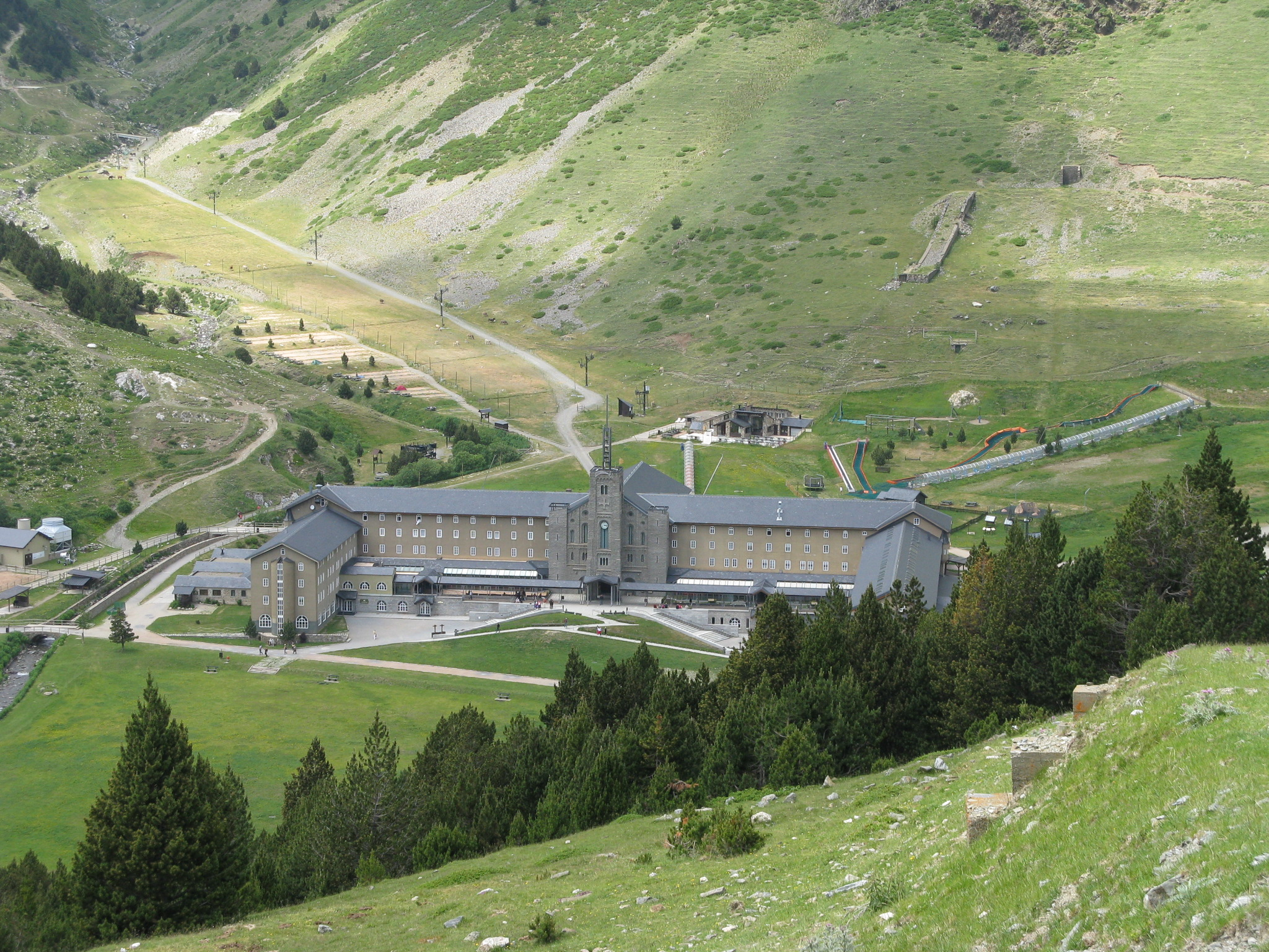 Church of Nuria